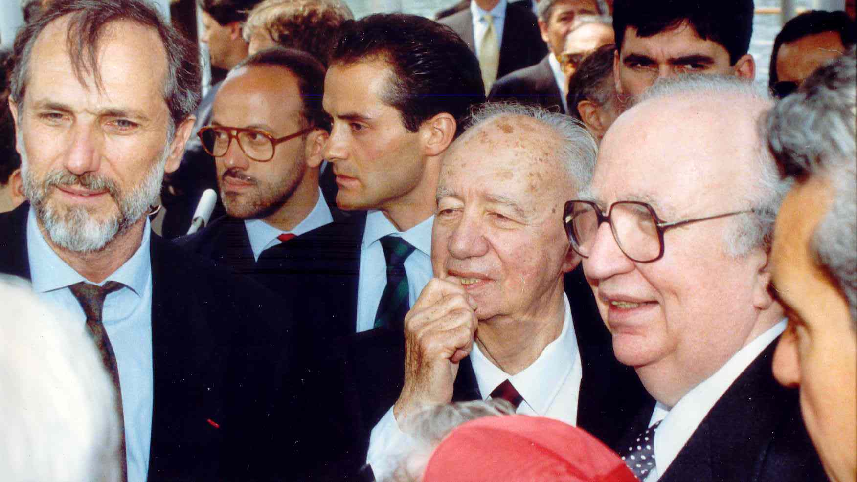 Taviani Paolo Emilio and Piano Renzo_Genua_1992 october 12